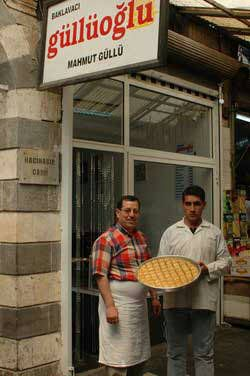 150 years old historical baklava shop